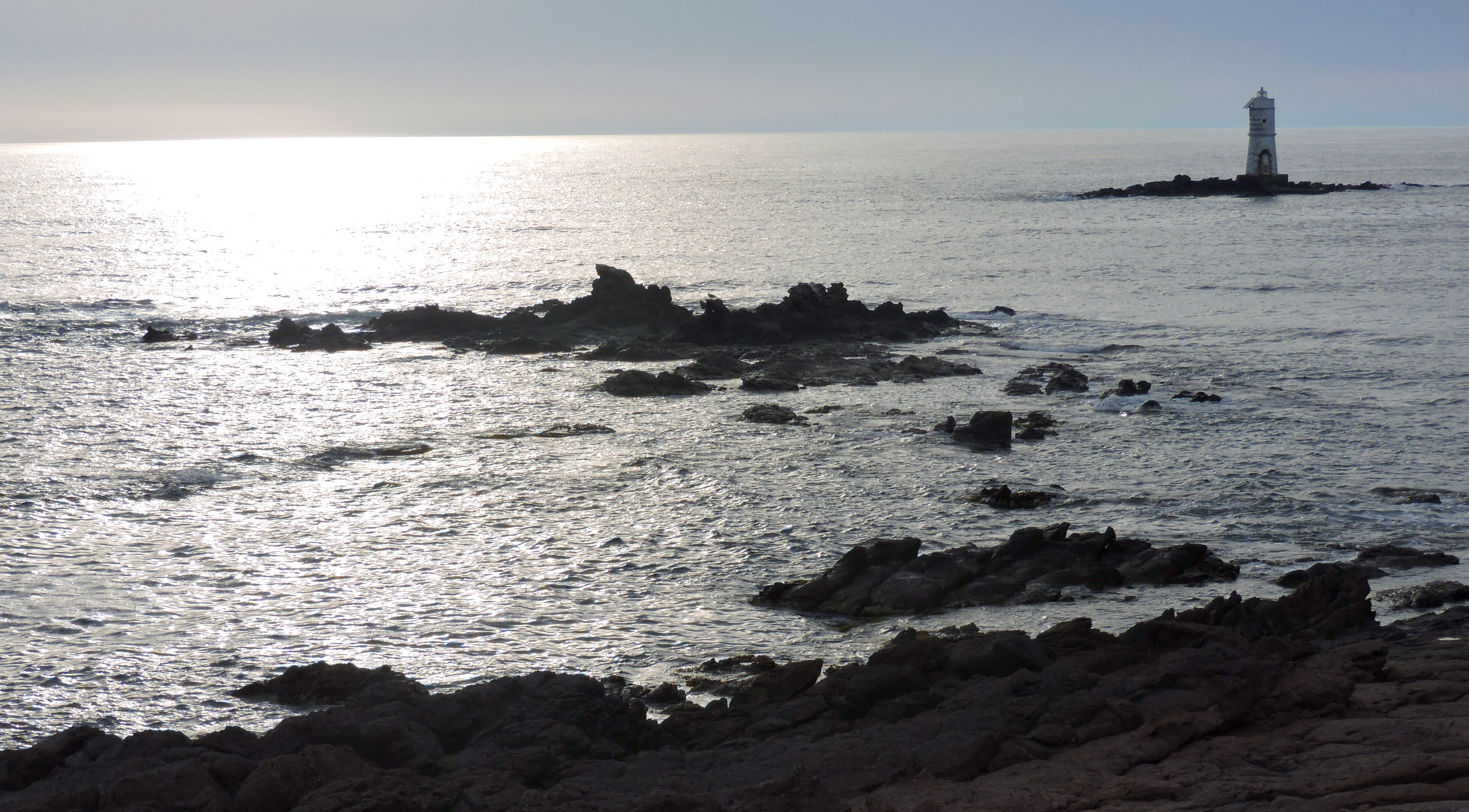 Scoglio Mangiabarche di terra and Scoglio Mangiabarche di fuori (Calasetta, Sardinia, Italy)